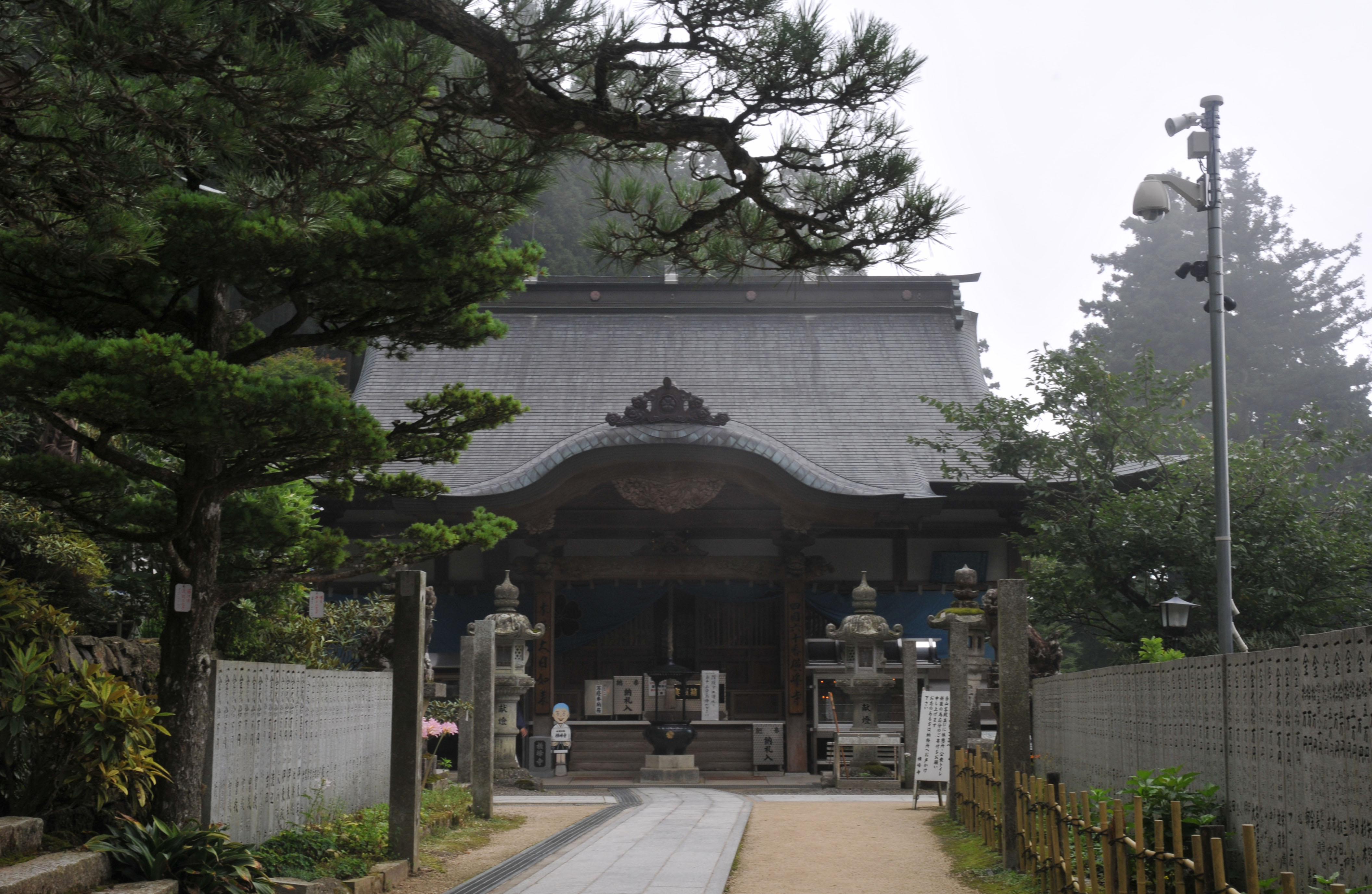 Main temple, Yokomine-ji